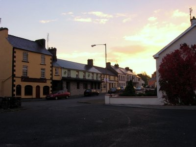 Picture of the village of Aclare taken by the uploader from the river on 28th September, 2005.